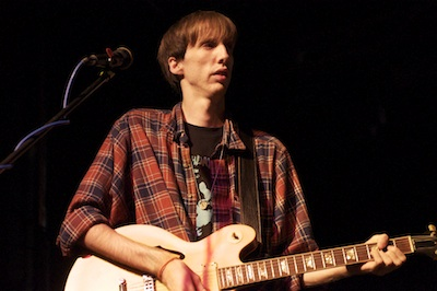 Deerhunter singer Bradford Cox - Live in Concert (photo by Scott Dudelson)